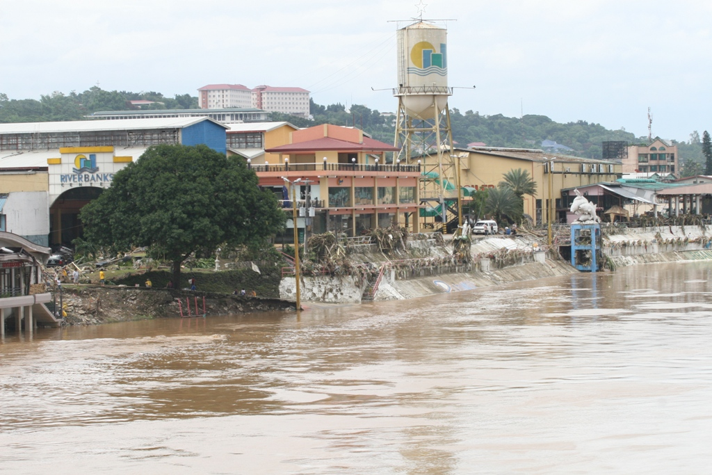 taken from Dan Saavedra's Ondoy aftermath - Sept 27,2009 Set